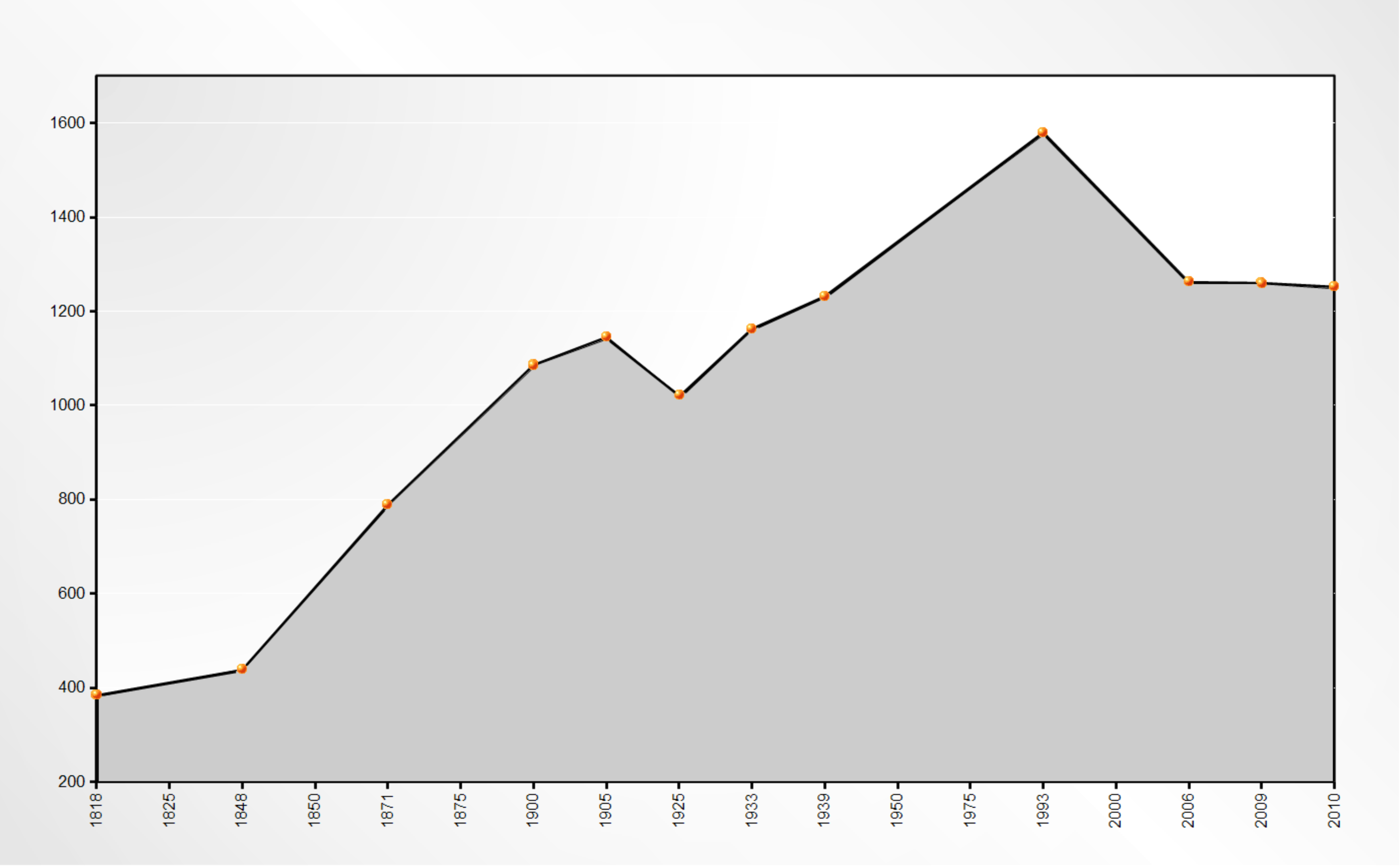 This image shows the population development of Görzig (South Anhalt)